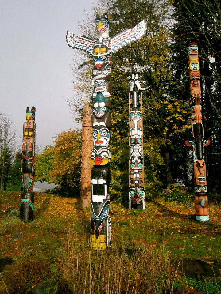 totems